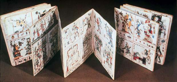 Codex Fejervary-Mayer, page 2.